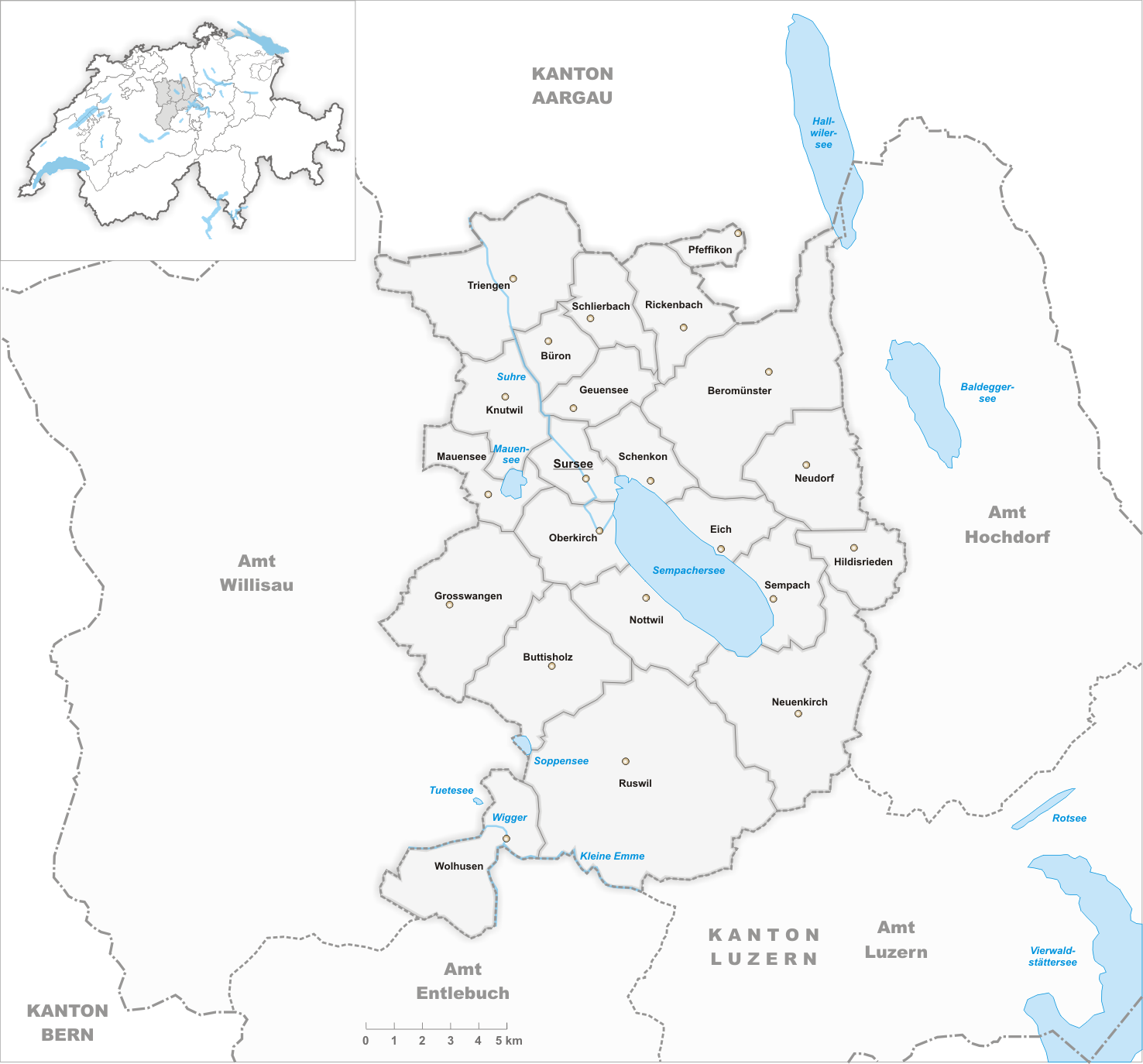 Municipality in the District of Sursee Artist: Tschubby